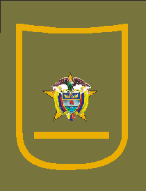 La insignia de Patrullero de la Policía Nacional de Colombia